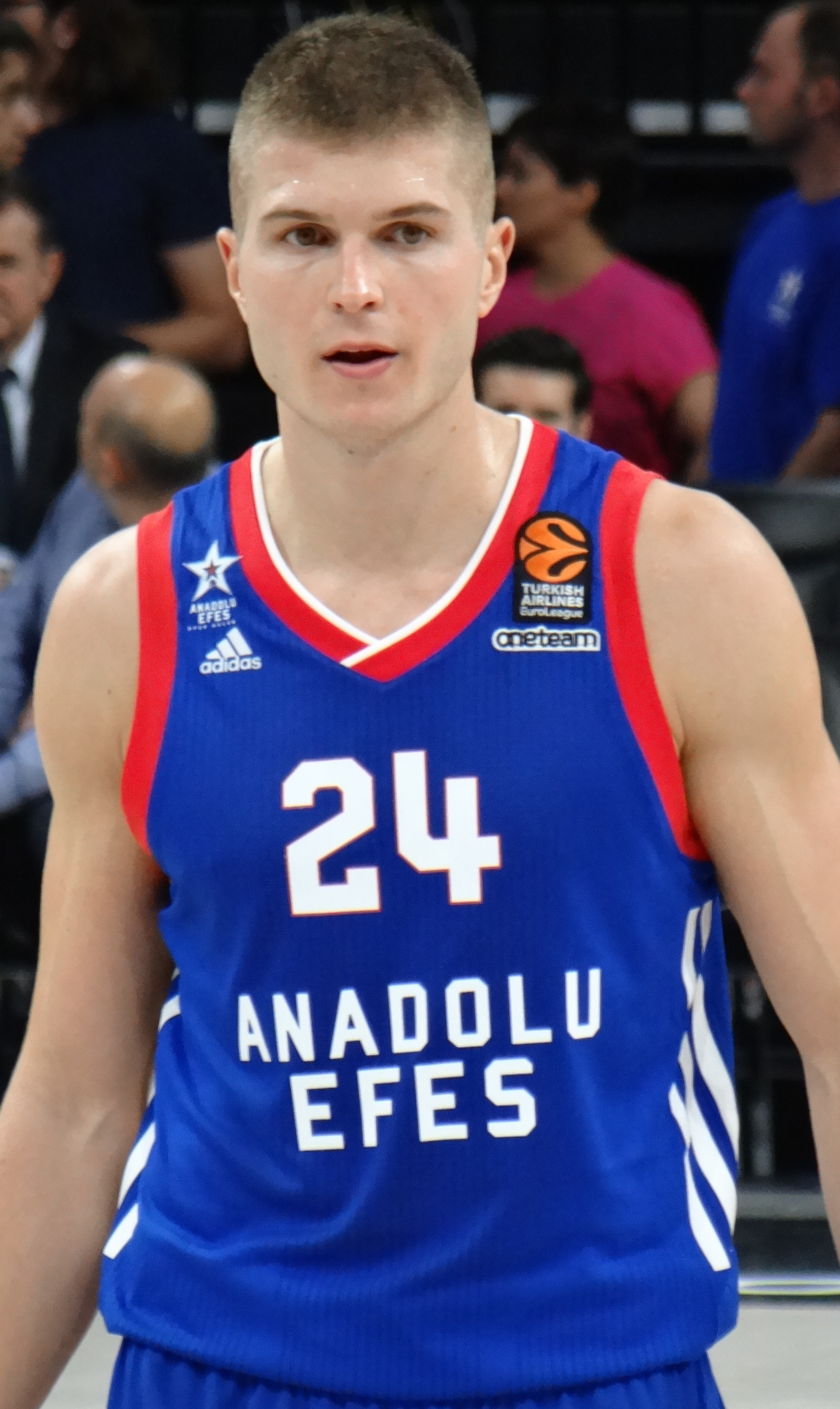 Edo Murić 24 Anadolu Efes Euroleague 20171012